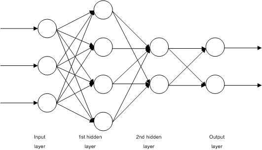 Multilayer Neural Network